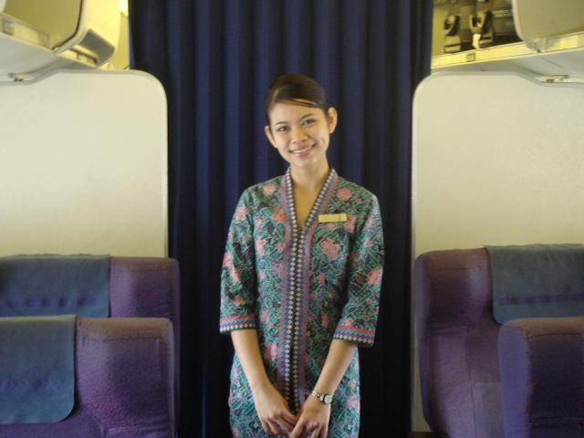 MH cabin crew member.